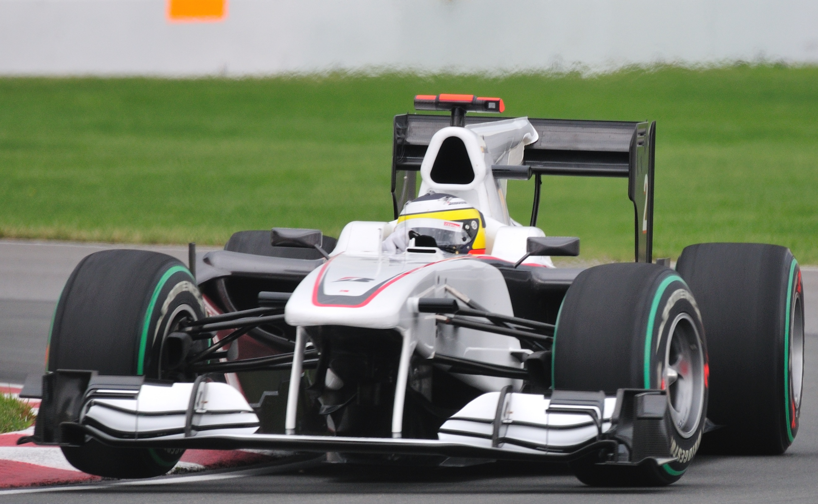 Pedro de la Rosa's Sauber C29 in the Senna corner of the Gilles Villeneuve Circuit